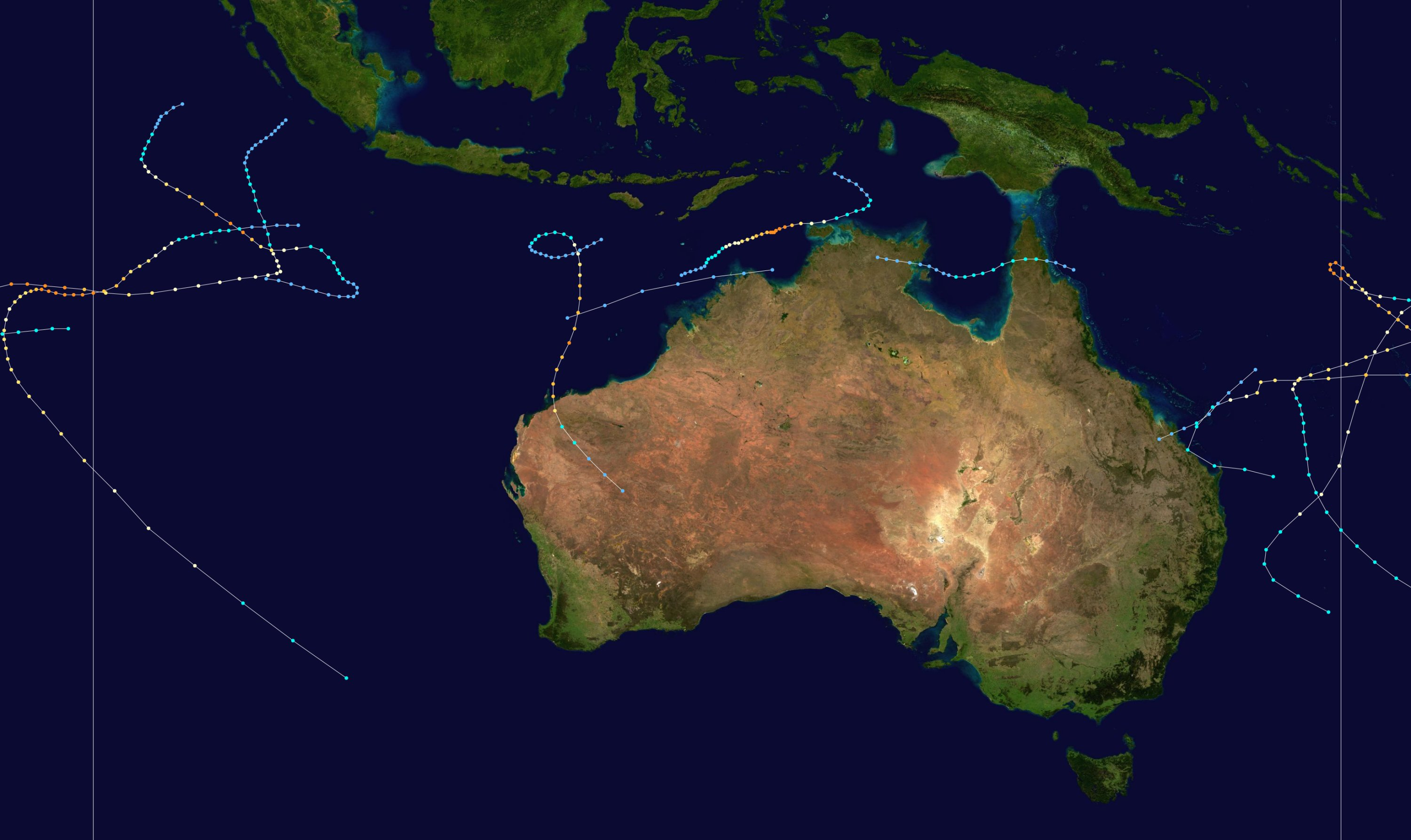 This map shows the tracks of all tropical cyclones in the 1991-92 Australian region cyclone season. The points show the location of each storm at 6-hour intervals. The colour represents the storm's maximum sustained wind speeds as classified in the Saffir-Simpson Hurricane Scale (see below), and the shape of the data points represent the type of the storm. Saffir–Simpson scale Tropical depression≤38 mph≤62 km/h Category 3111–129 mph178–208 km/h Tropical storm39–73 mph63–118 km/h Category 4130–156 mph209–251 km/h Category 174–95 mph119–153 km/h Category 5≥157 mph≥252 km/h Category 296–110 mph154–177 km/h Unknown Storm type Tropical cyclone Subtropical cyclone Extratropical cyclone / Remnant low / Tropical disturbance / Monsoon depression